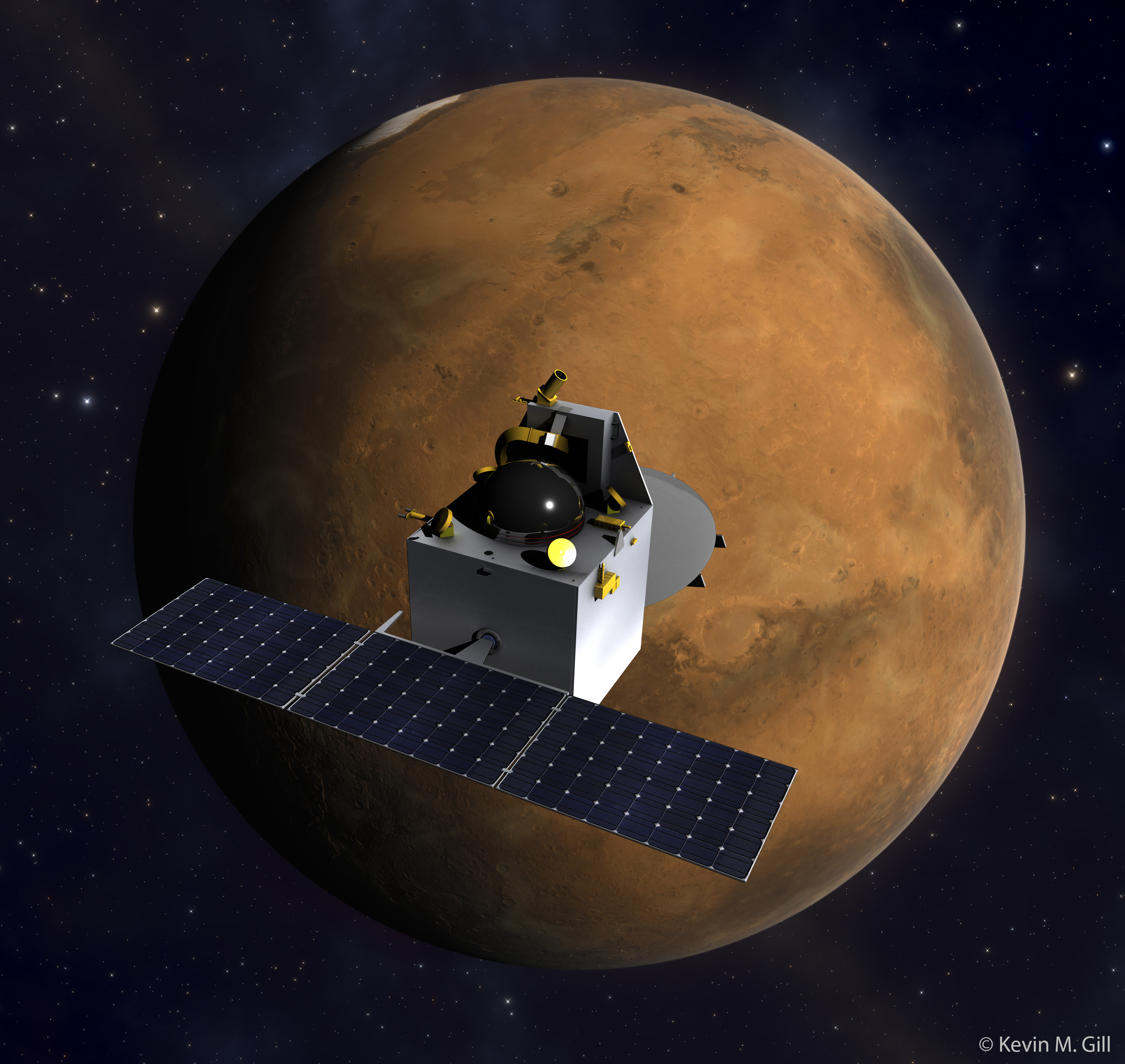 India's Mars Orbiter Mission spacecraft over Mars. Rendered using a combination of Blender 2.71 with Cycles (Background, Mars) and Autodesk Maya 2015 (spacecraft). Final processing in Adobe Photoshop.